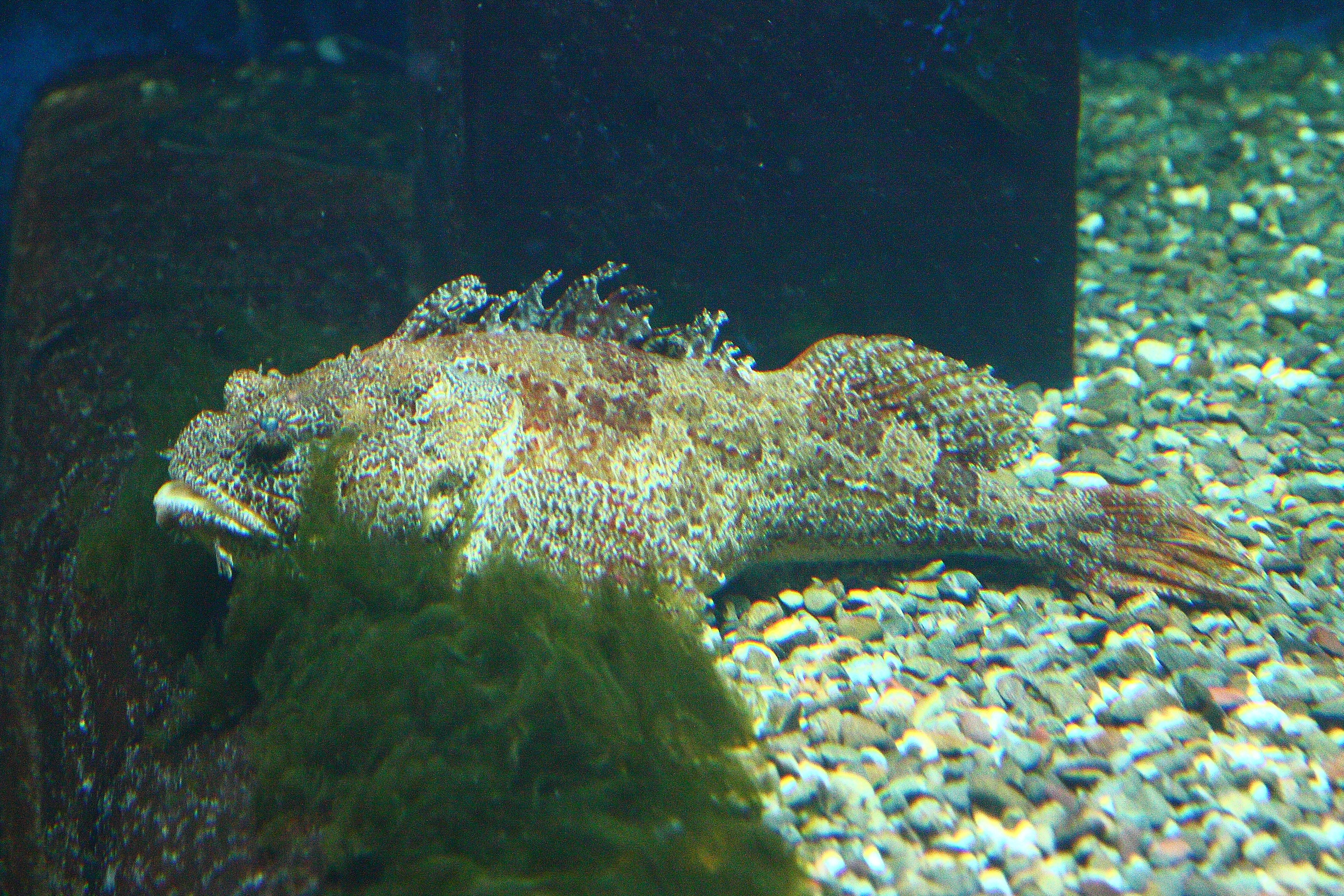 Hemitripterus americanus, Aquarium du Québec